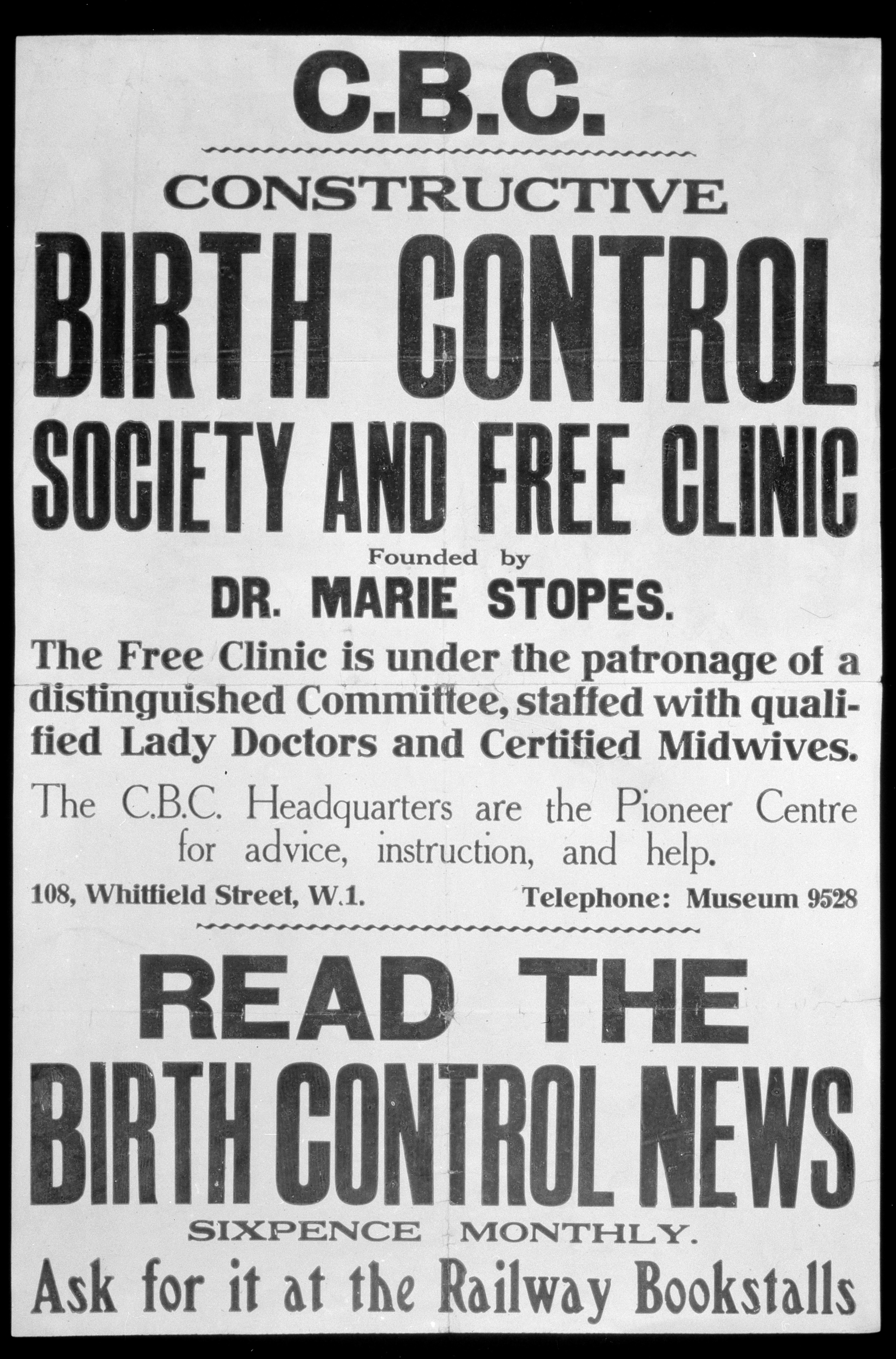 Constructive Birth Control poster, advertising Constructive Birth Control Society and Marie Stopes' free clinic. Archives & Manuscripts Keywords: Marie Carmichael Stopes